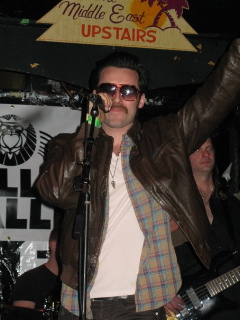 Jay Della Valle playing music at The Middle East